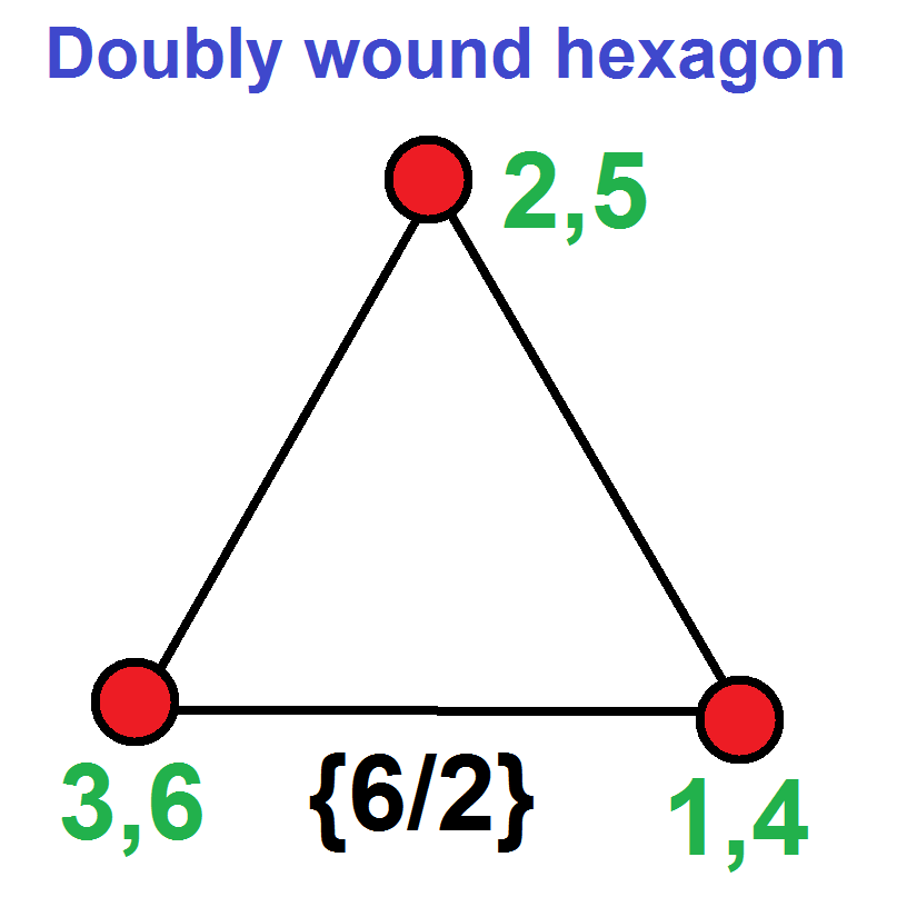 Star polygon {6/2} as a doubly wound hexagon